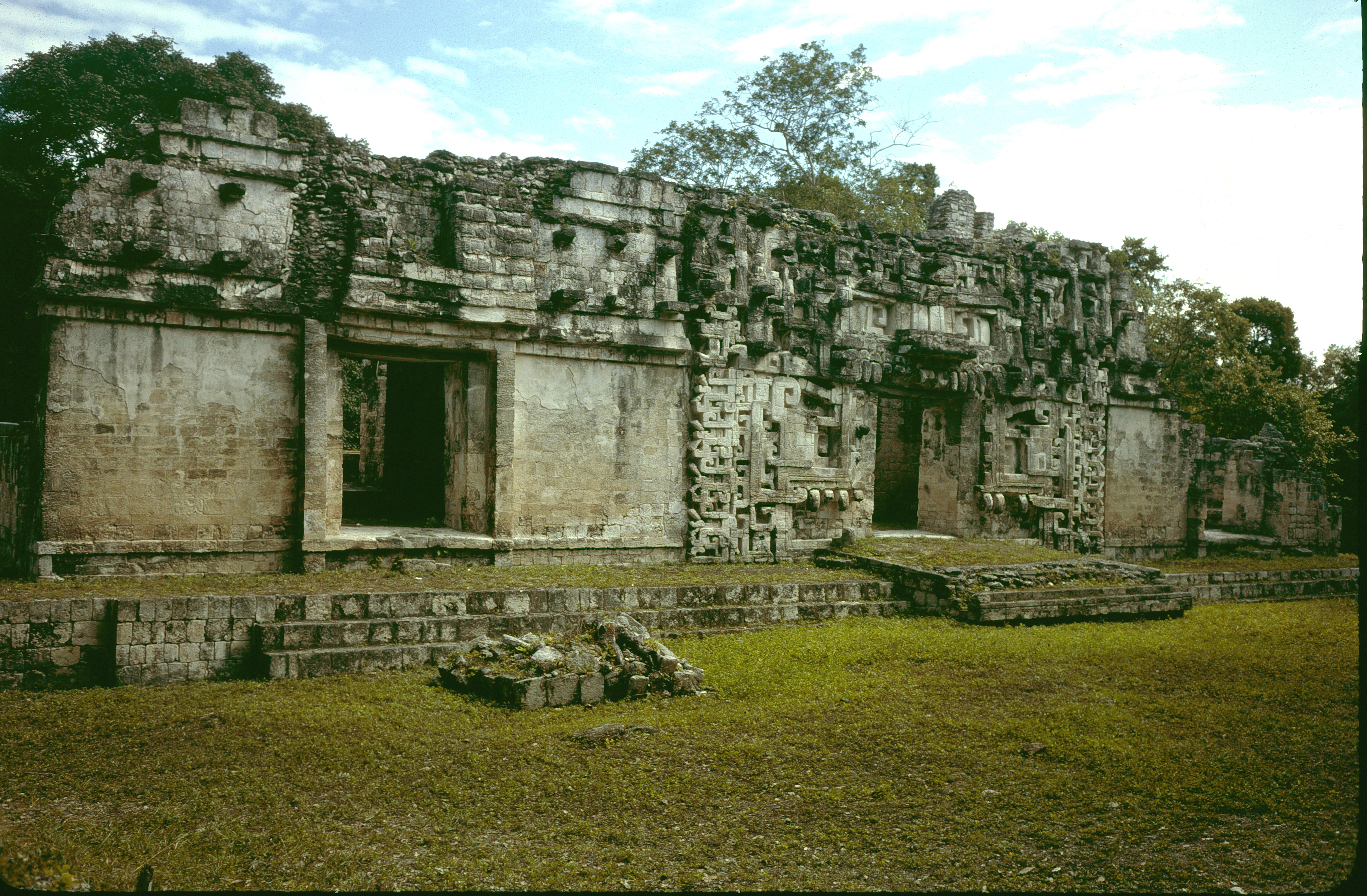 Chicanna, Campeche, Mexico: Structure II